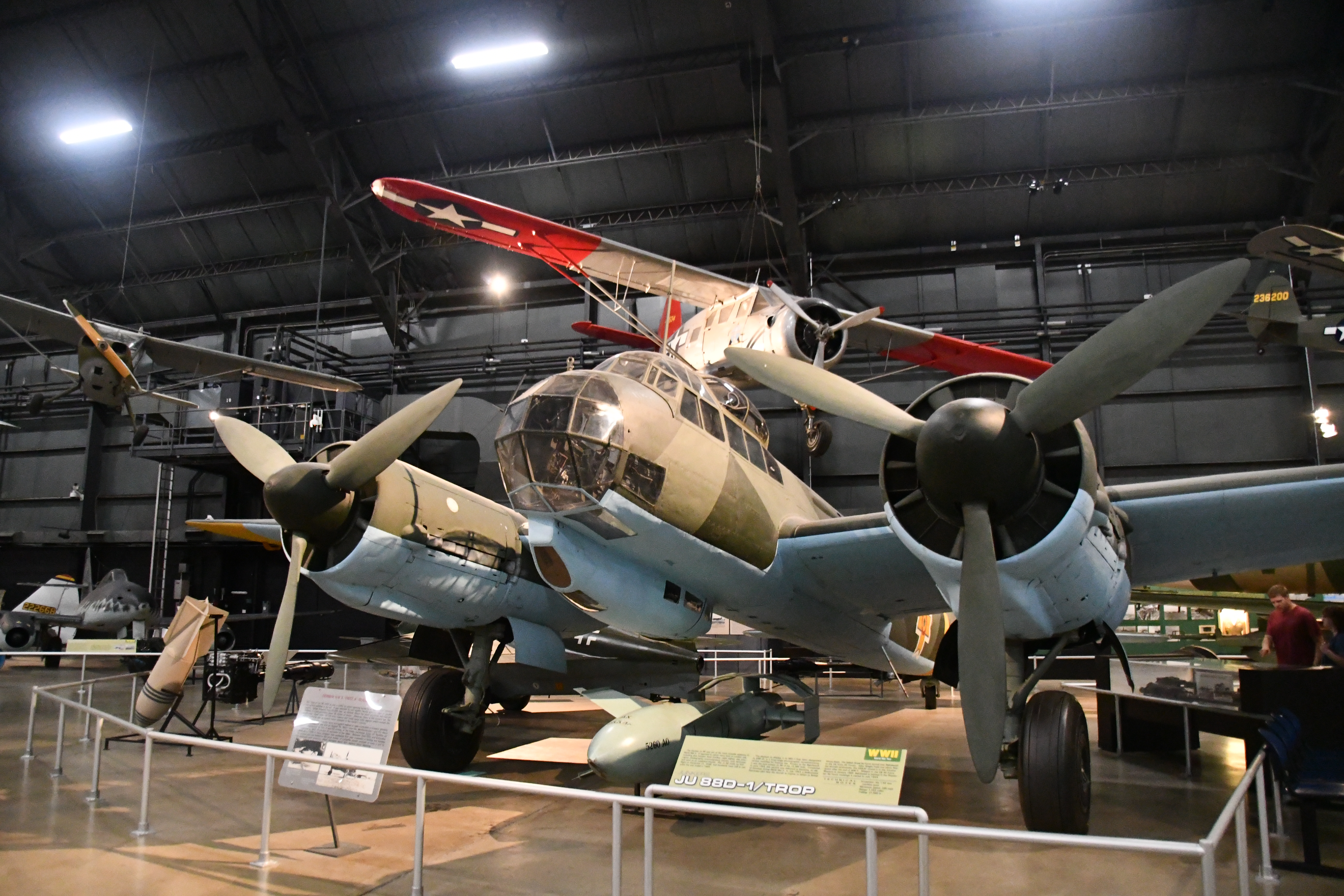 Junkers JU 88D-1 at the National Museum of the USAF, Dayton, OH